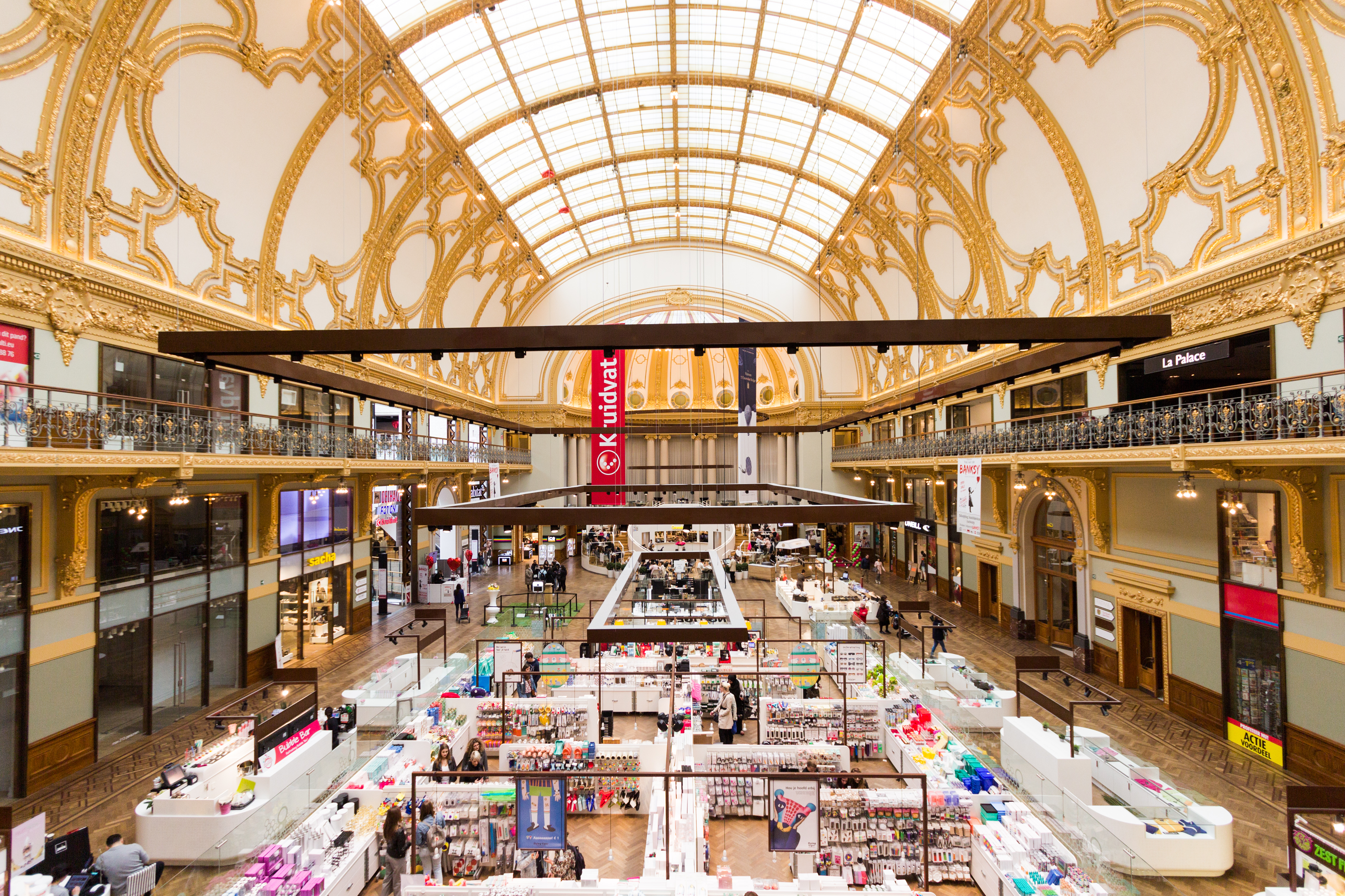 Gilded shopping center in Antwerp